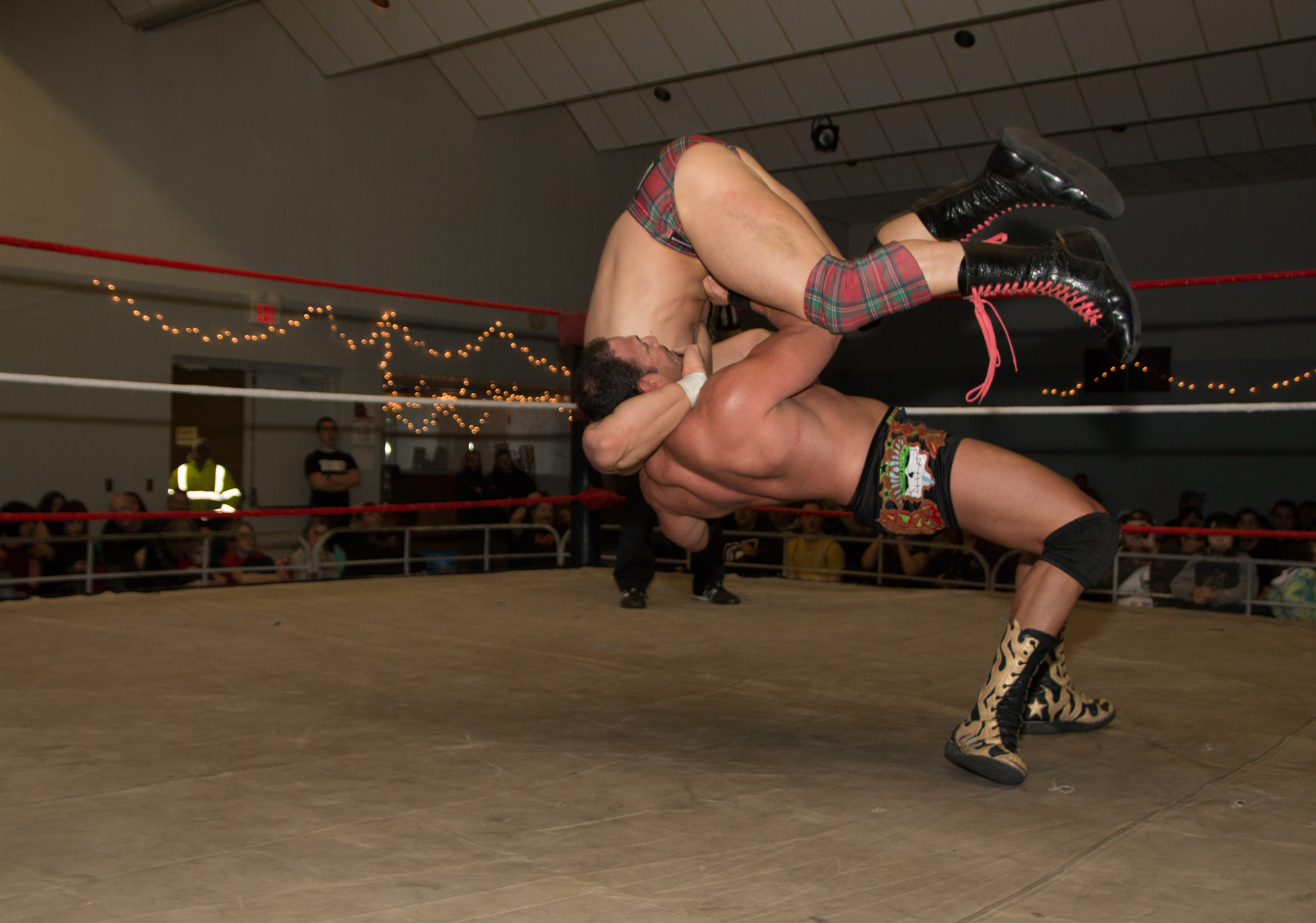 Chavo Guerrero, Jr executing a vertical suplex against Mike Rollins as part of a "Three Amigos" sequence. Photo was taken at a CWF show in St. Catherines, ON